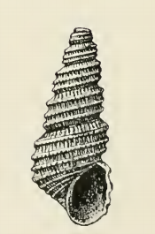 Iolaea eucosmia Dall & Bartsch, 1909; Pyramidellidae